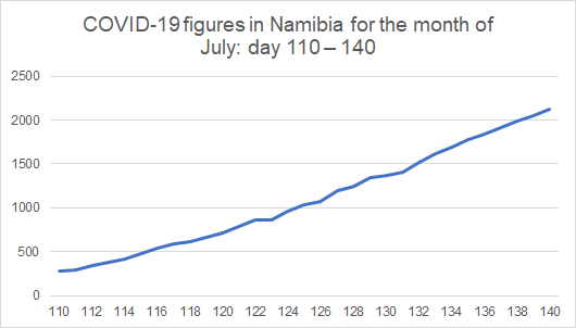 A graph showing the number of COVID-19 cases in Namibia for the month of July 2020. Day 110 represents the 1st of July; 110 days after the initial infection.